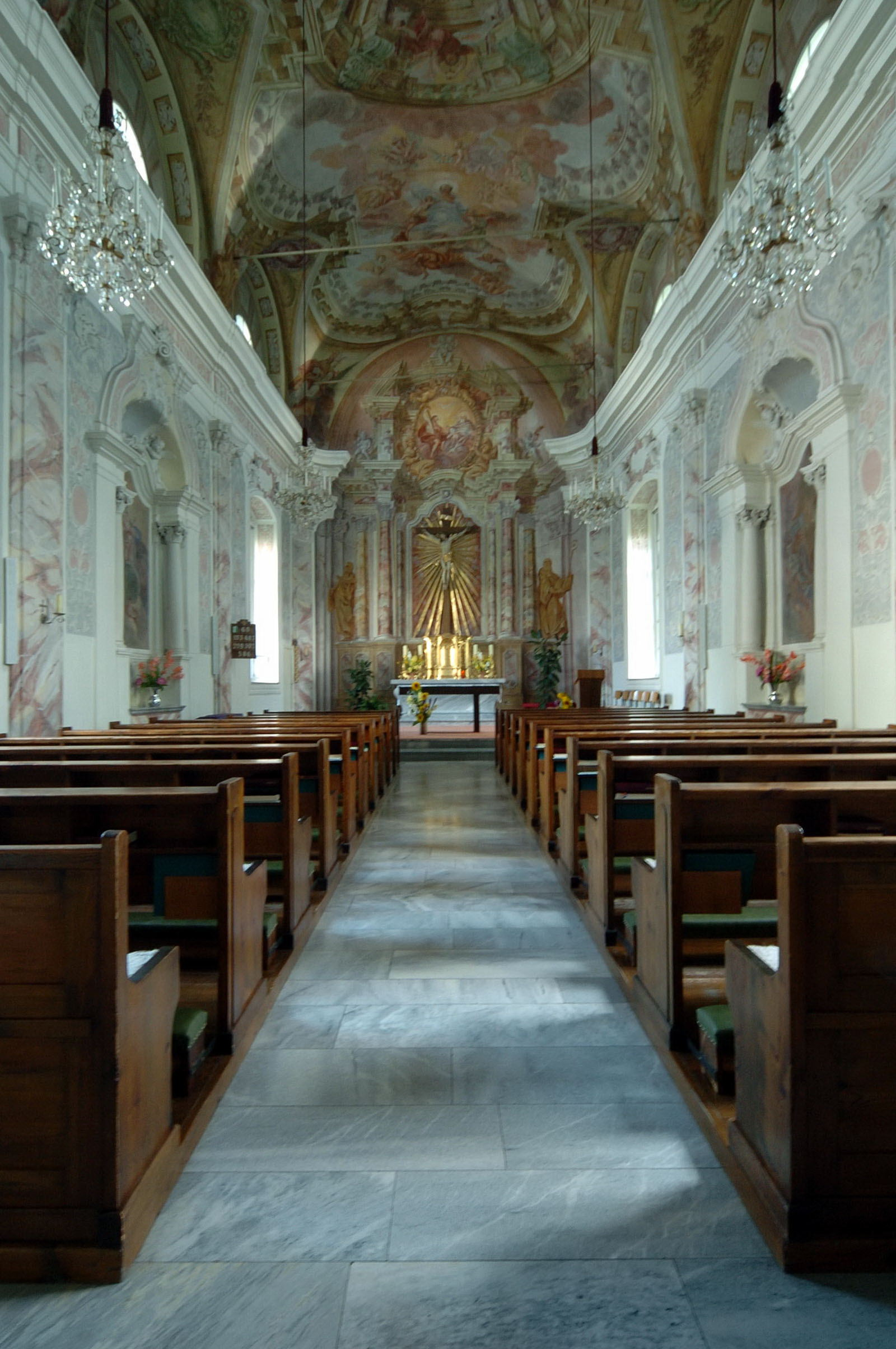 Interiour of the baroque monastery`s church "Zum kostbaren Blut" of castle Wernberg, Klosterweg #2, municipality Wernberg, district Villach Land, Carinthia, Austria, EU